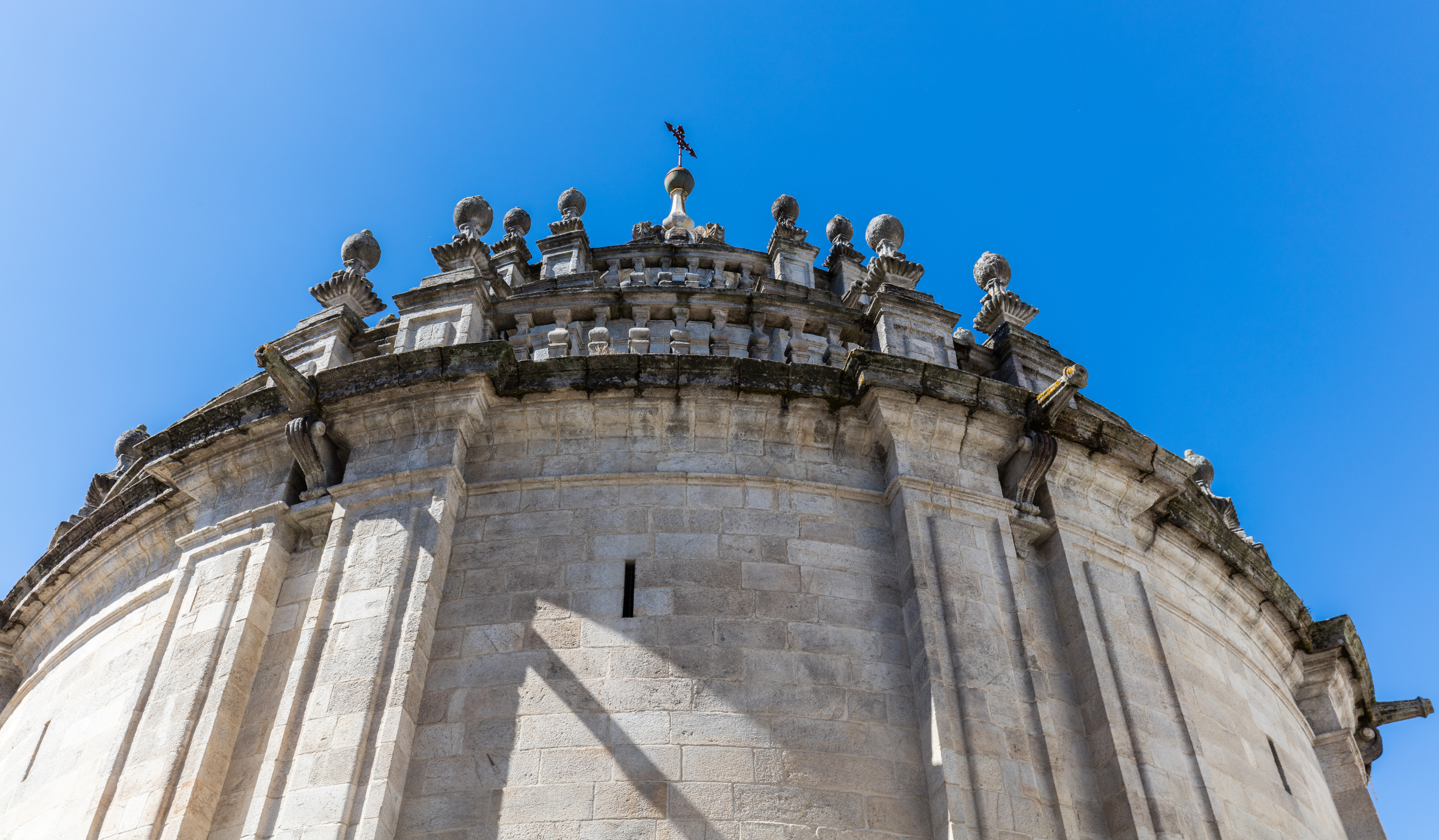 St Mary Cathedral, Lugo, SpainGalego: Catedral de Santa María, Lugo, Galiza.